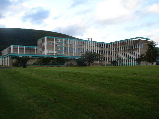 St Mary's Christian Brothers' Grammar School I took a "shortcut" through the school grounds from Upper Springfield Road only to find the school gates were locked at the south end!